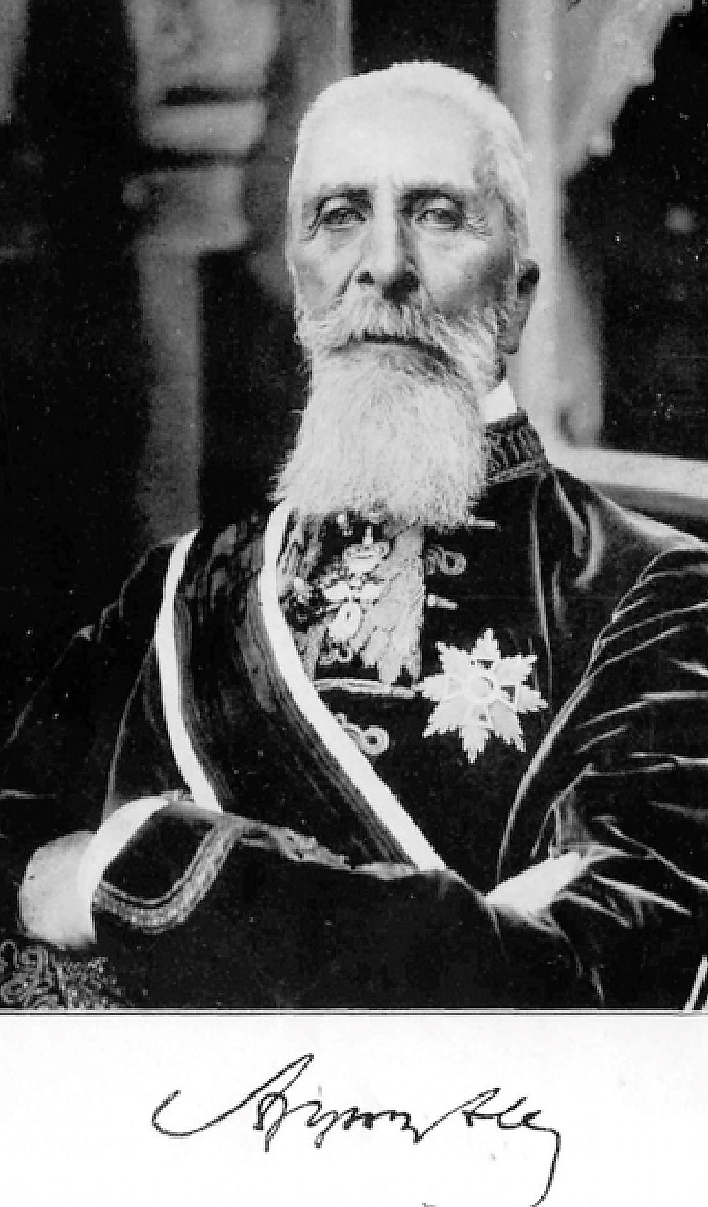 Apponyi emlékkönyv Magyar Külügyi Társaság 1926